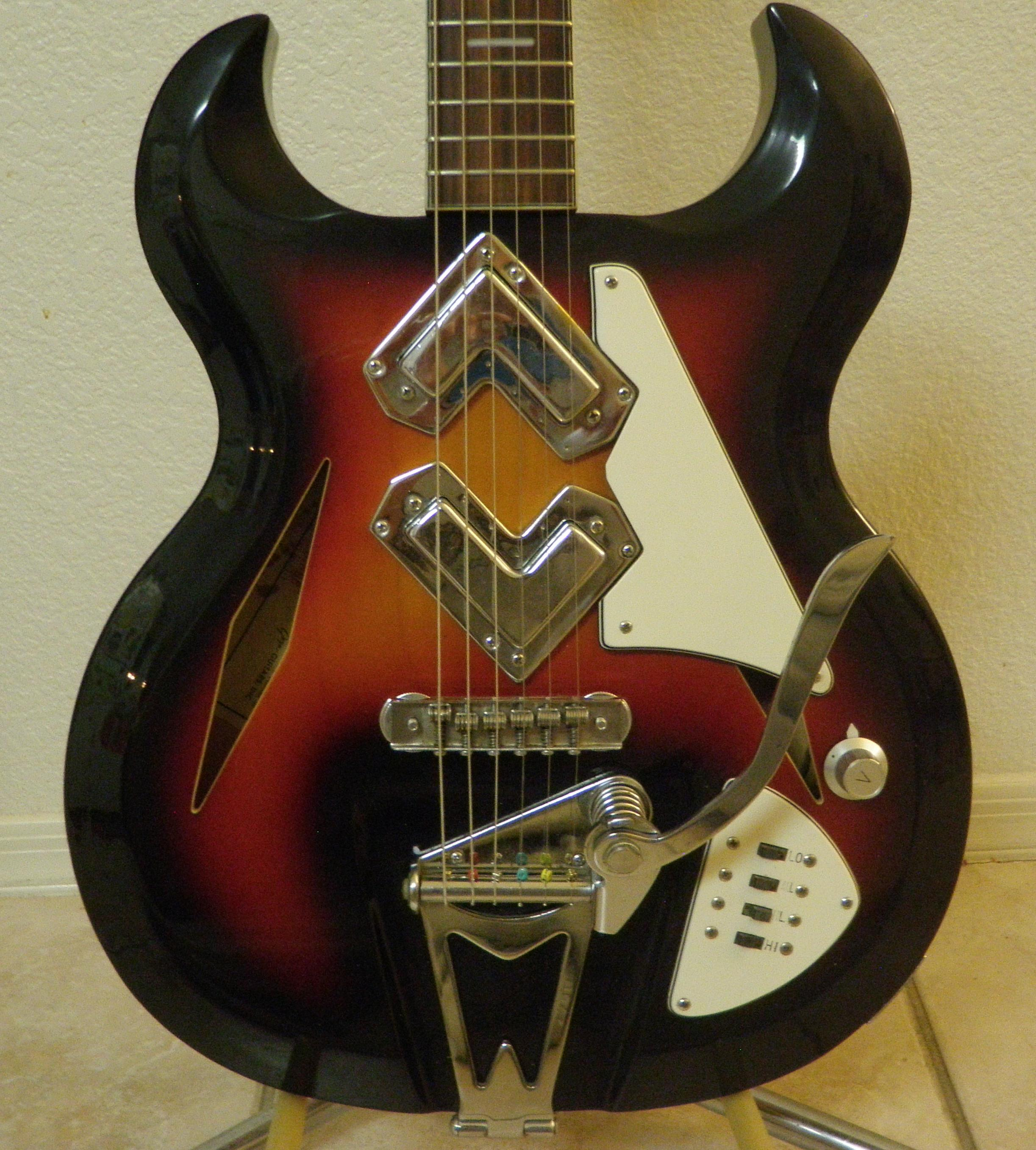 1968 Greco model 975 Shrike with L shape Boomerang split coil Pickups References 1968 Goya & Greco guitar catalog. greco "shrike", p. 17. New York, NY: Goya Music Division of Avnet Inc.. "No.975—Two pickup "Shrike" in new modern design with four pickup selector slide switches, volume control, 3-way adjustable bridge and vibrato. Available in burgandy red, golden sunburst or green sunburst. . . . $149.50"